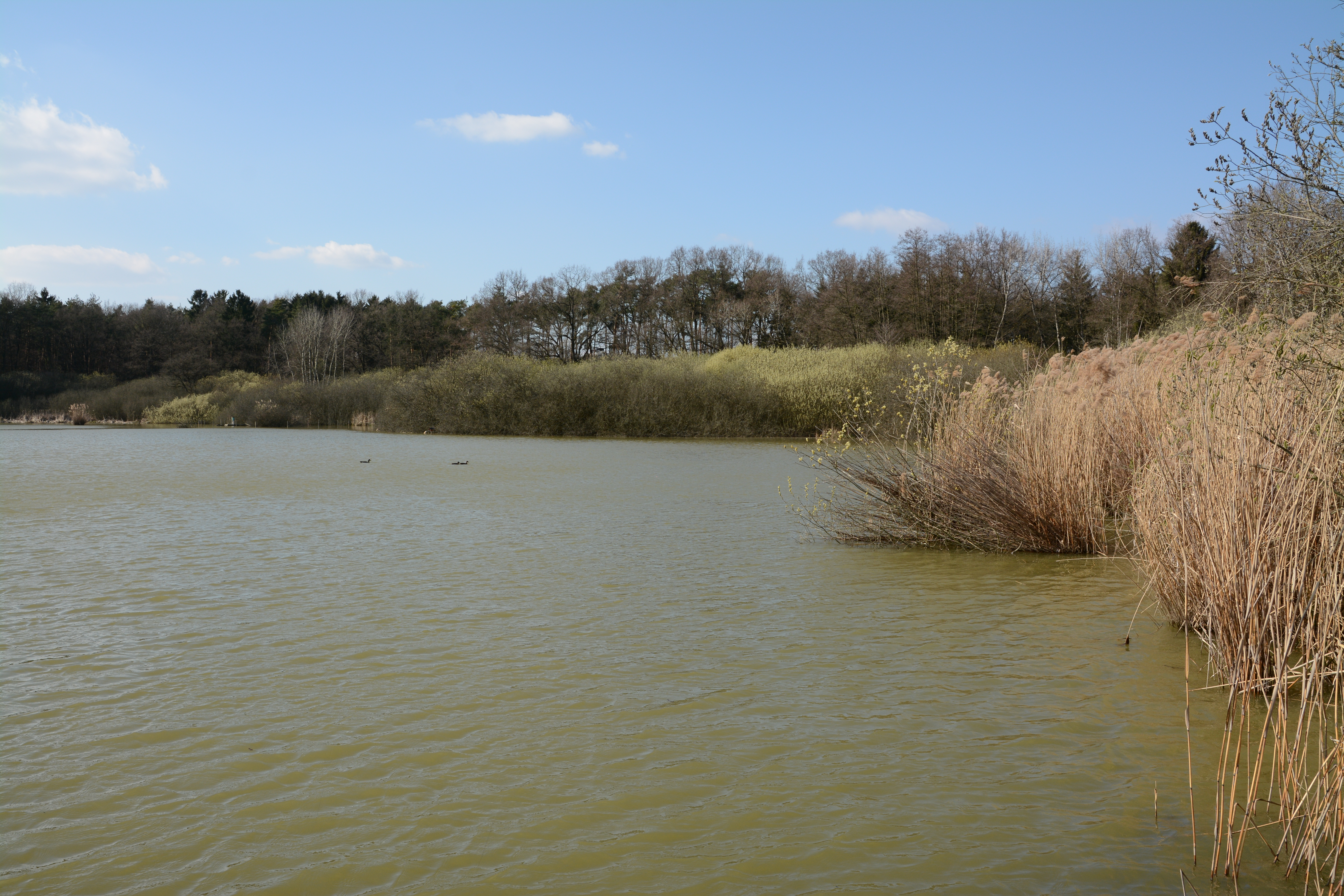 Harter Teich